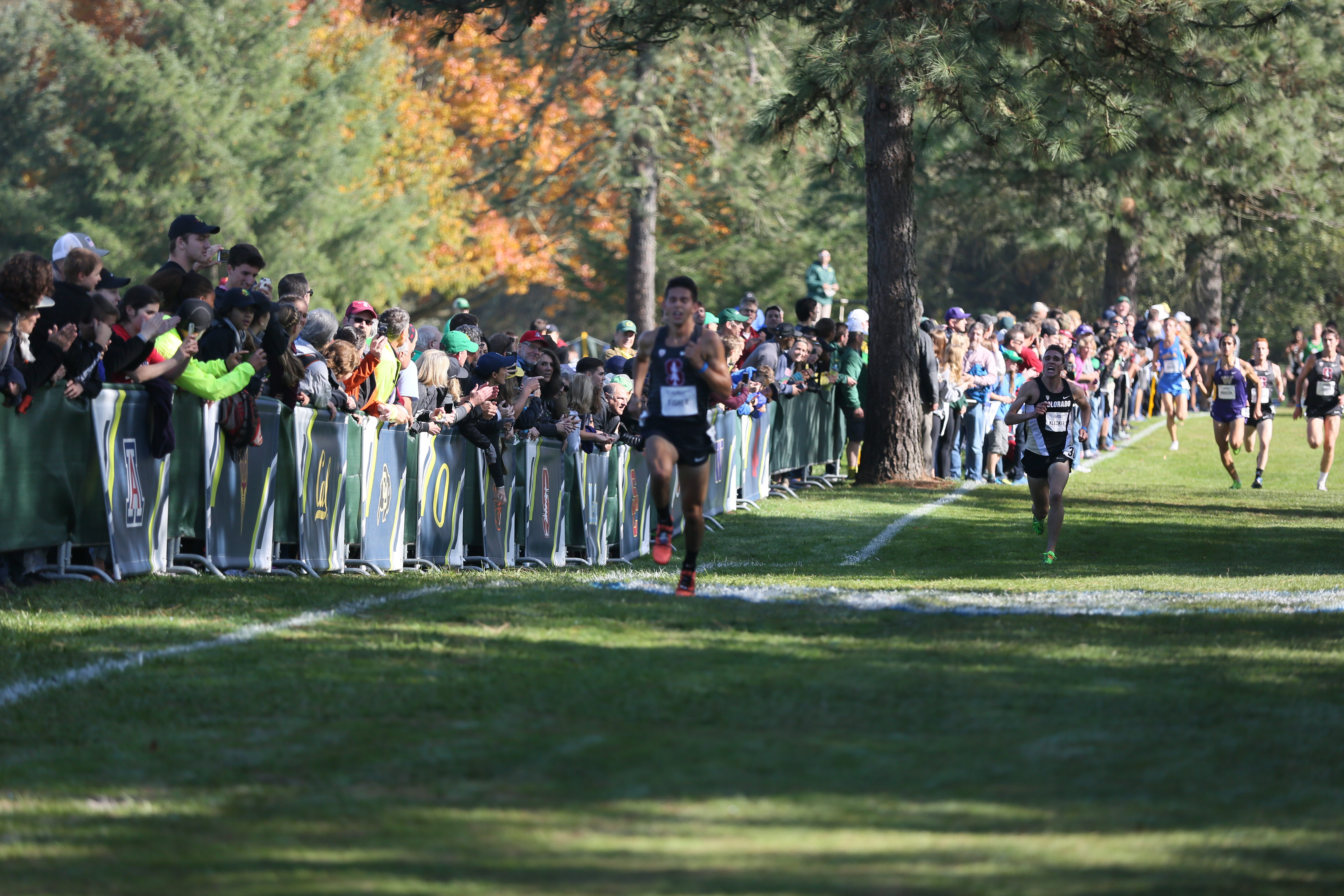 2017 Pac-12 Cross Country Championships